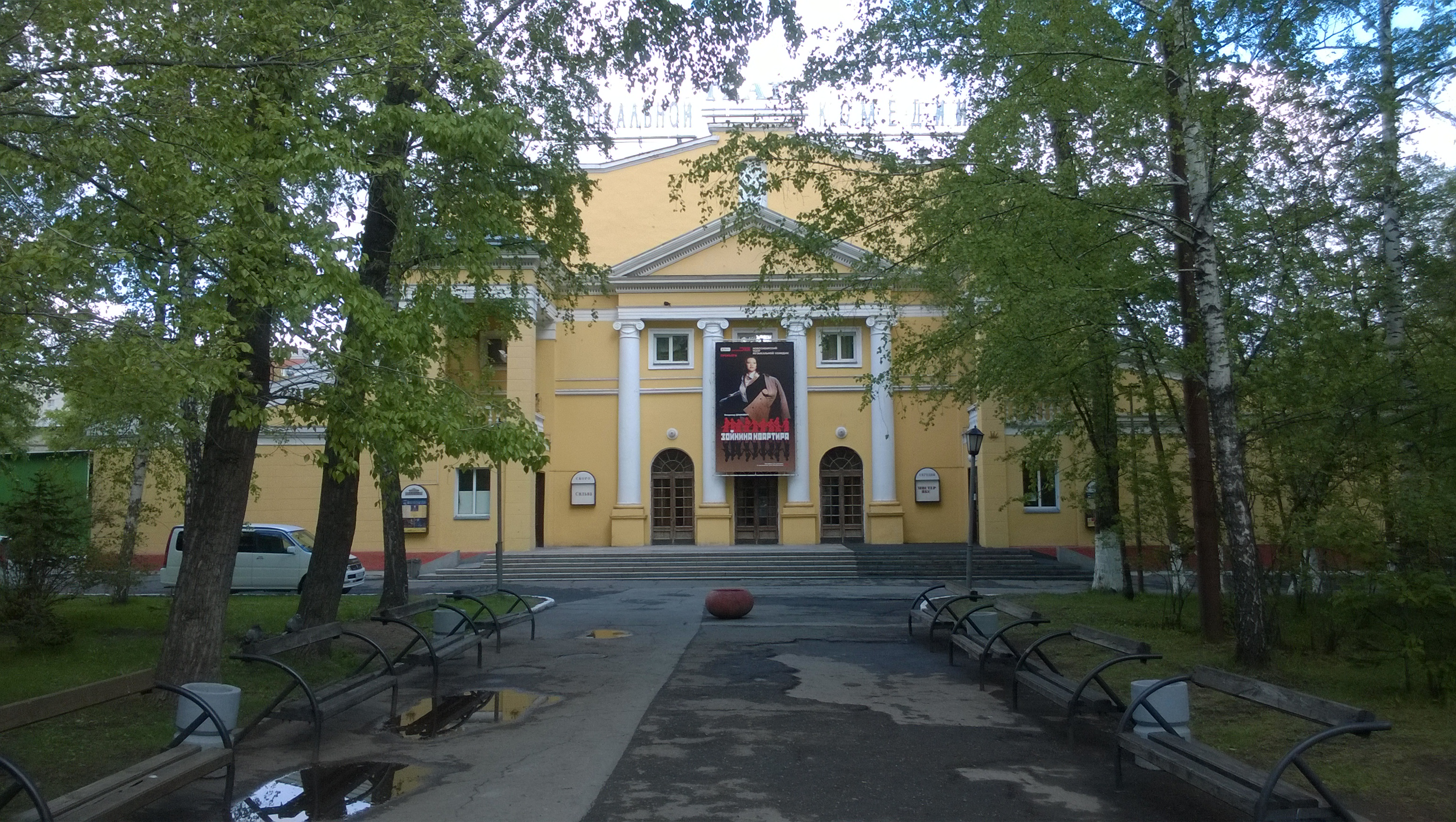 Theatre of Musical Comedy in Novosibirsk